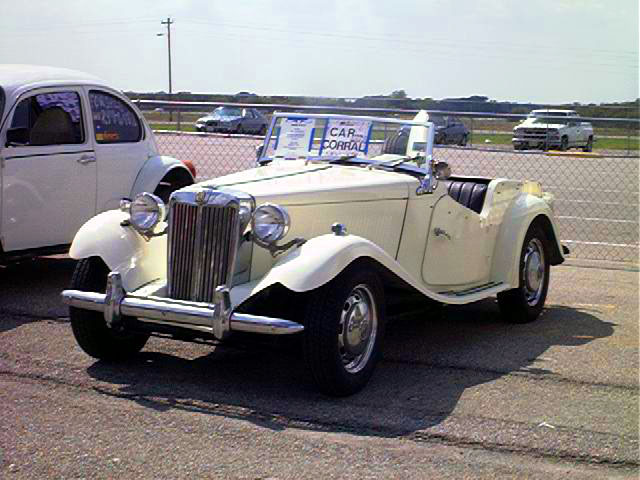 There really is a Beetle under there! I looked.MiGi